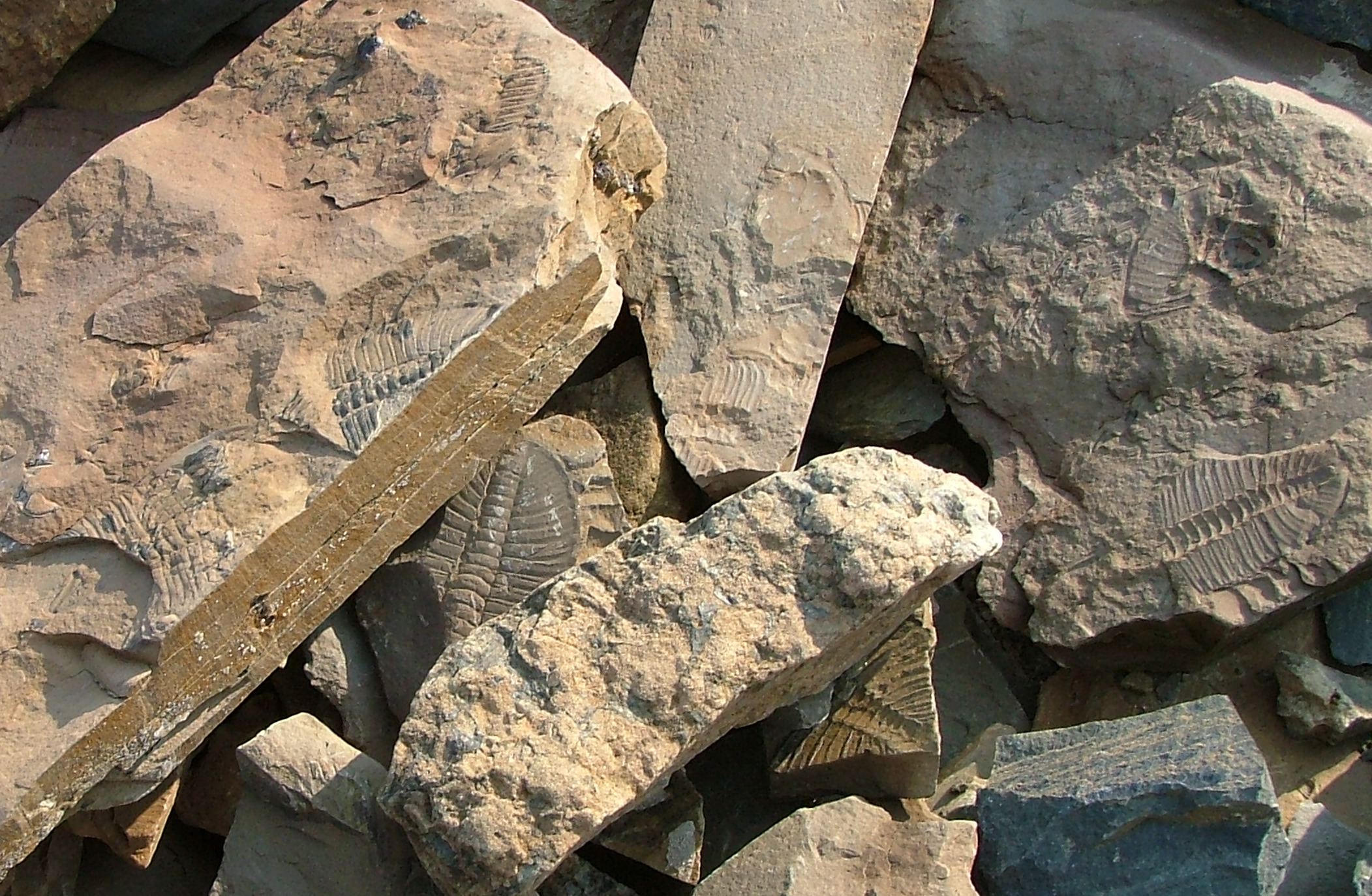 Fossil trilobites in talus at the Mount Stephen Trilobite Beds. Fossils are in their original position - the density is not a result of my arrangement! It may well be Ogygopsis klotzi